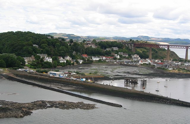 North Queensferry from the Forth Road Bridge.